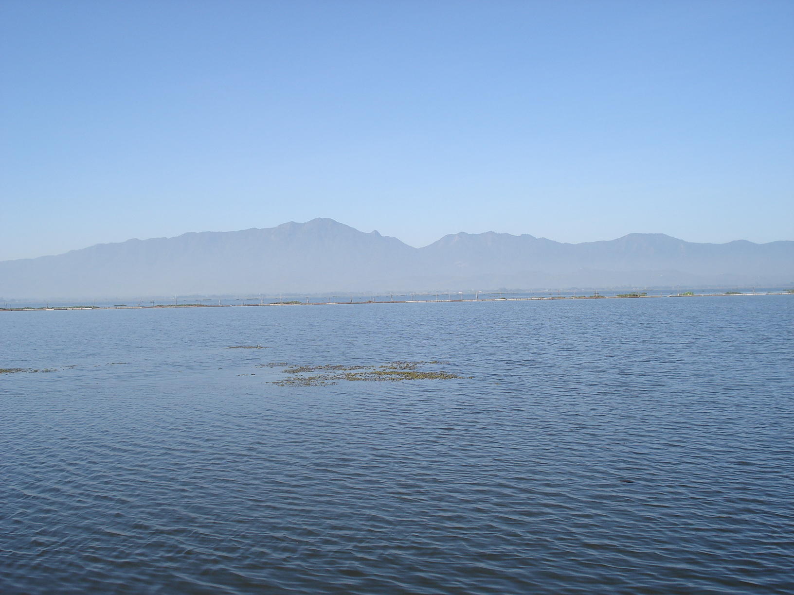 Lake in Phayao province, Thailand กว๊านพะเยา